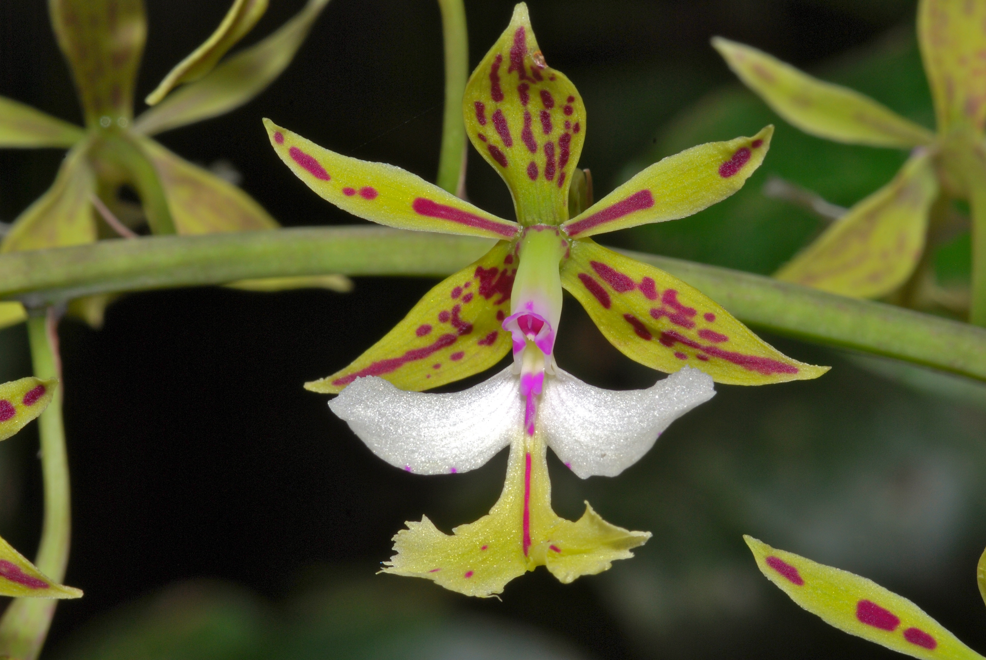 Cockscomb Wildlife Sanctuary, BELIZE